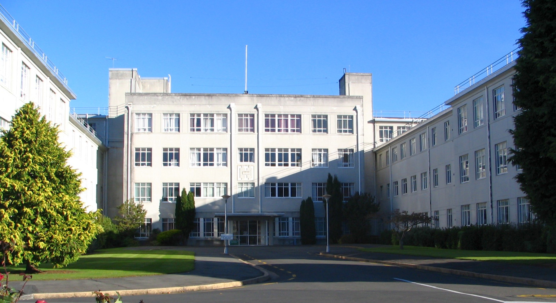 Main Block, Wakari Hospital, Dunedin, New Zealand. Own photo taken from hospital carpark, looking SSW